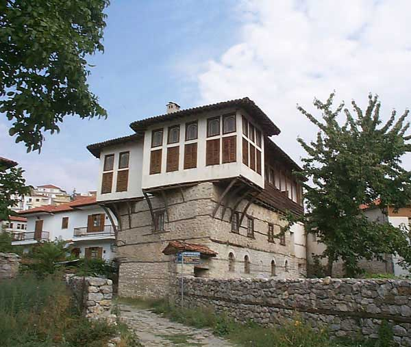 External view, image from the Costume Museum, Kastoria, West Macedonia, Greece